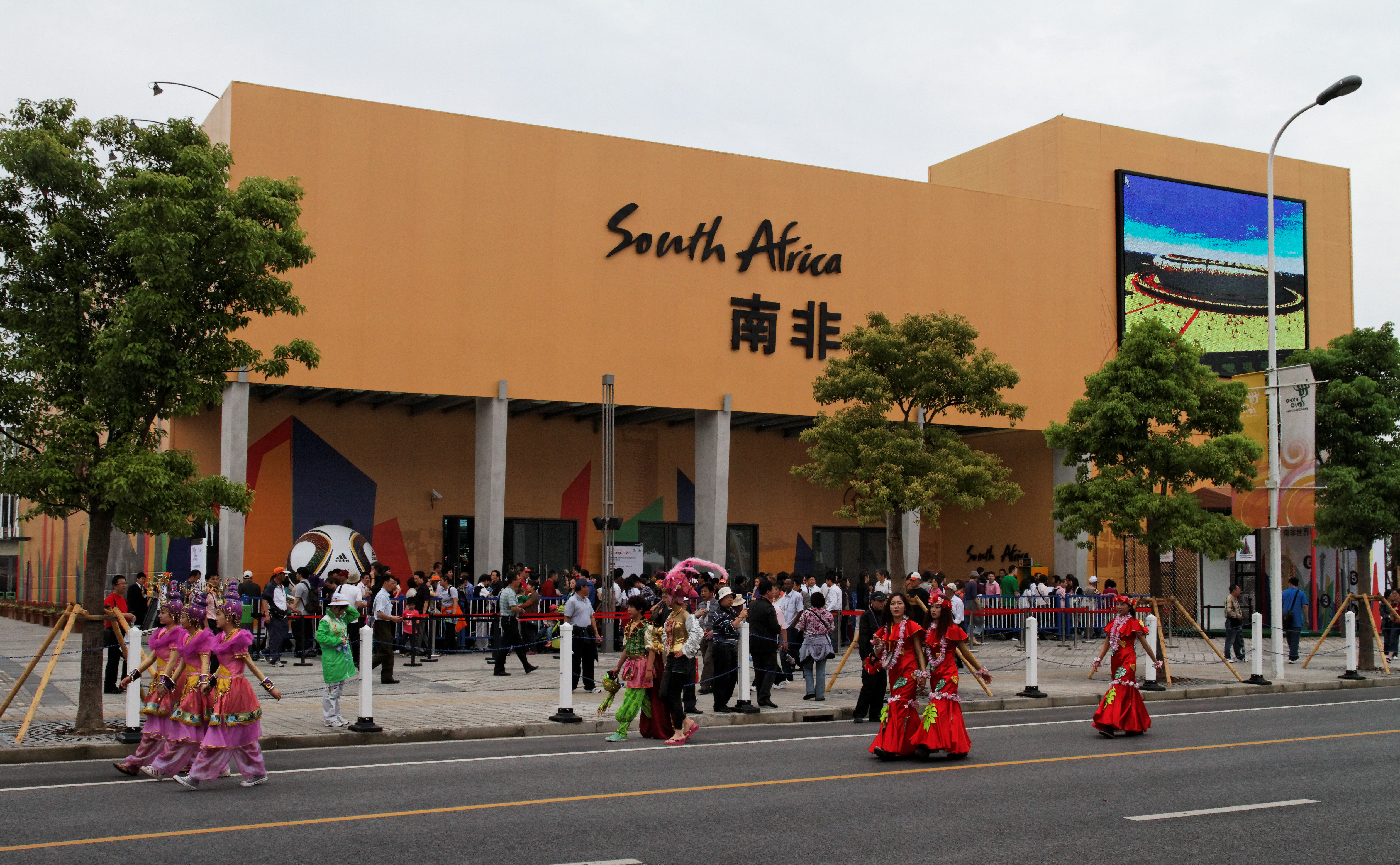 South Africa Pavilion of Expo 2010, with parade dancers